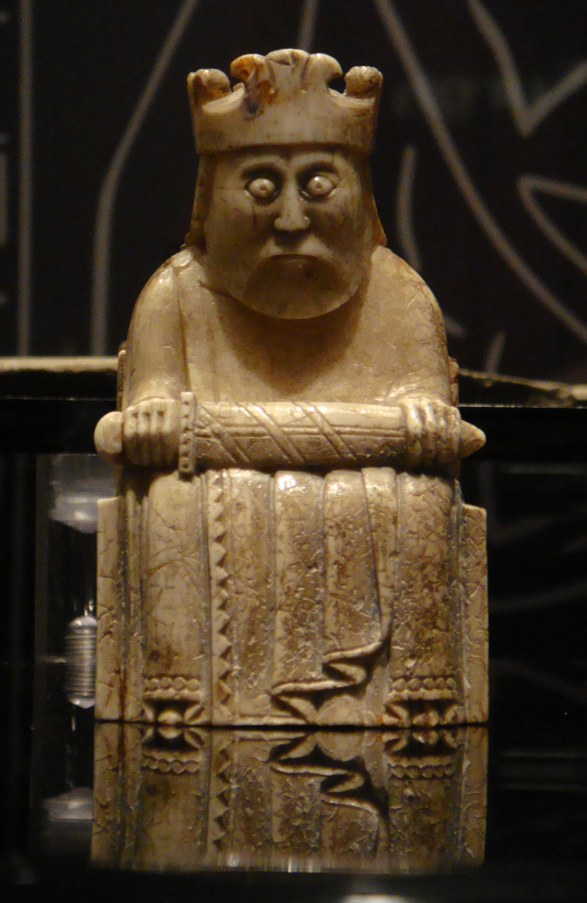 Exhibition in the National Museum of Scotland. Pieces from the British Museum, National Museum of Scotland and other collections. A king with number of permanent collection NMS 19